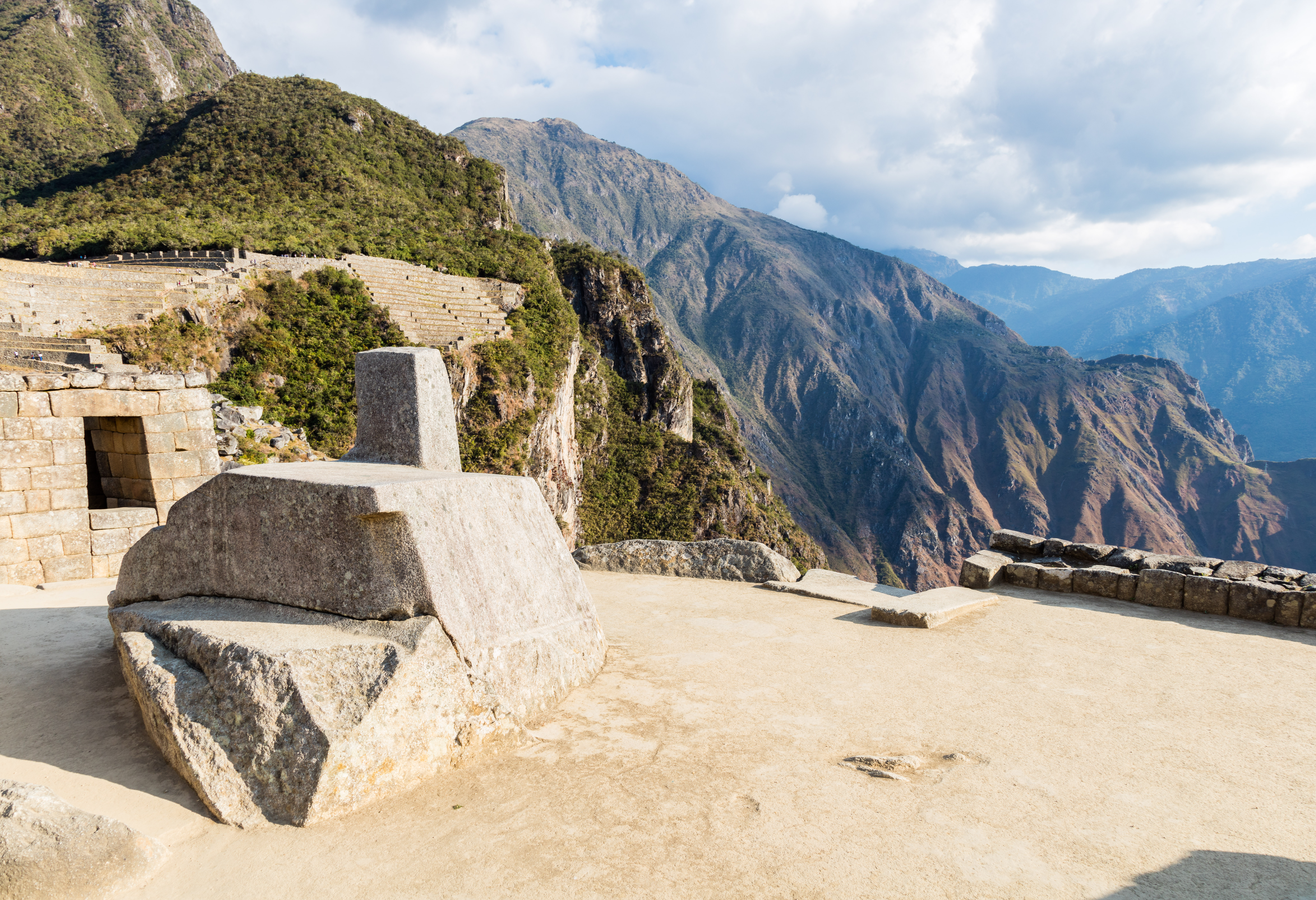 Machu Picchu, Peru